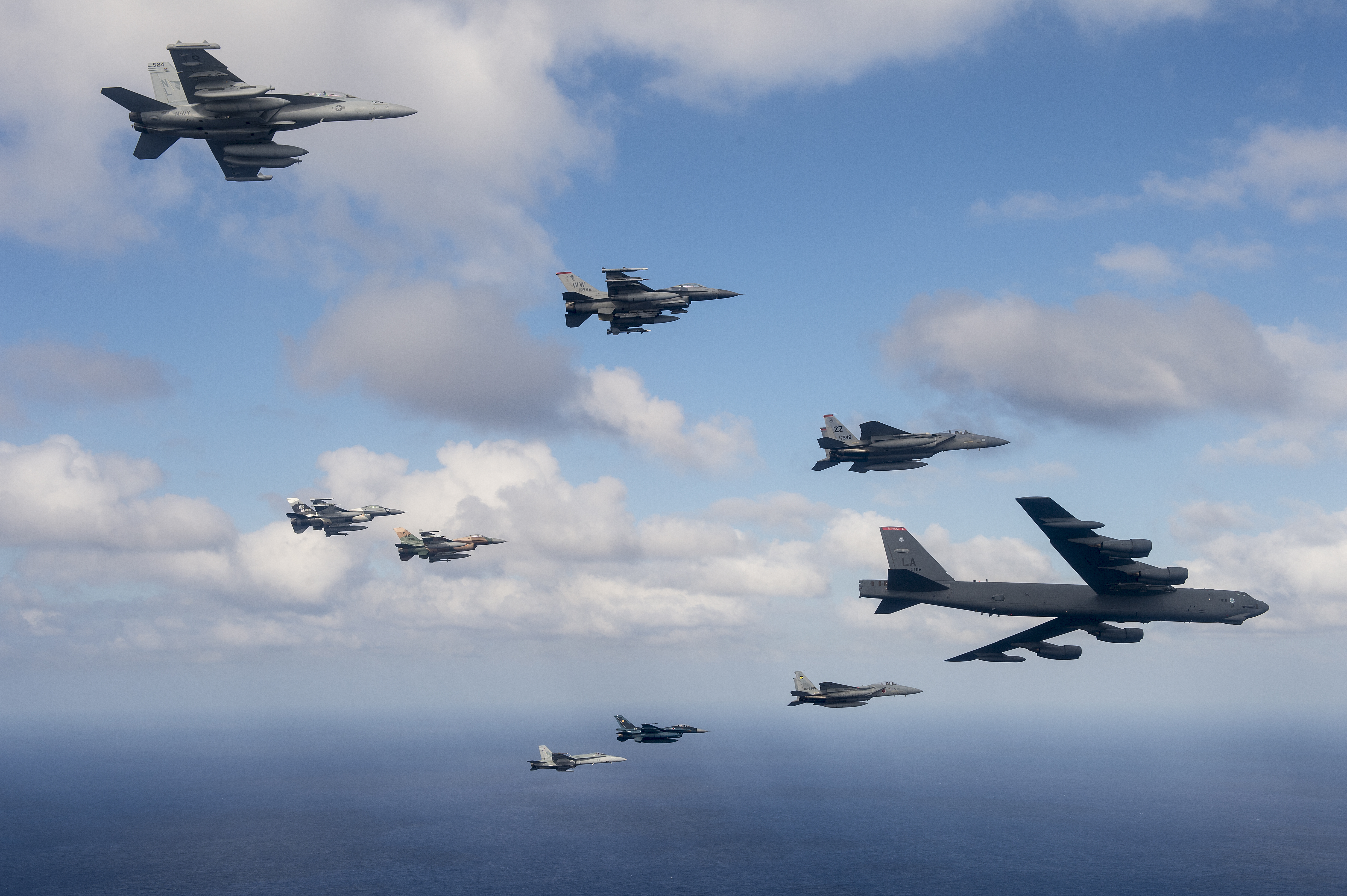 U.S. Air Force, Japan Air Self-Defense Force and Royal Australian Air Force aircraft fly in formation off the coast of Guam during Cope North 15, Feb. 17, 2015. Through training exercises like Exercise Cope North 15, the U.S., Japan and Australia air forces develop combat capabilities, enhancing air superiority, electronic warfare, air interdiction, tactical airlift and aerial refueling. (U.S. Air Force photo by Tech. Sgt. Jason Robertson/Released)